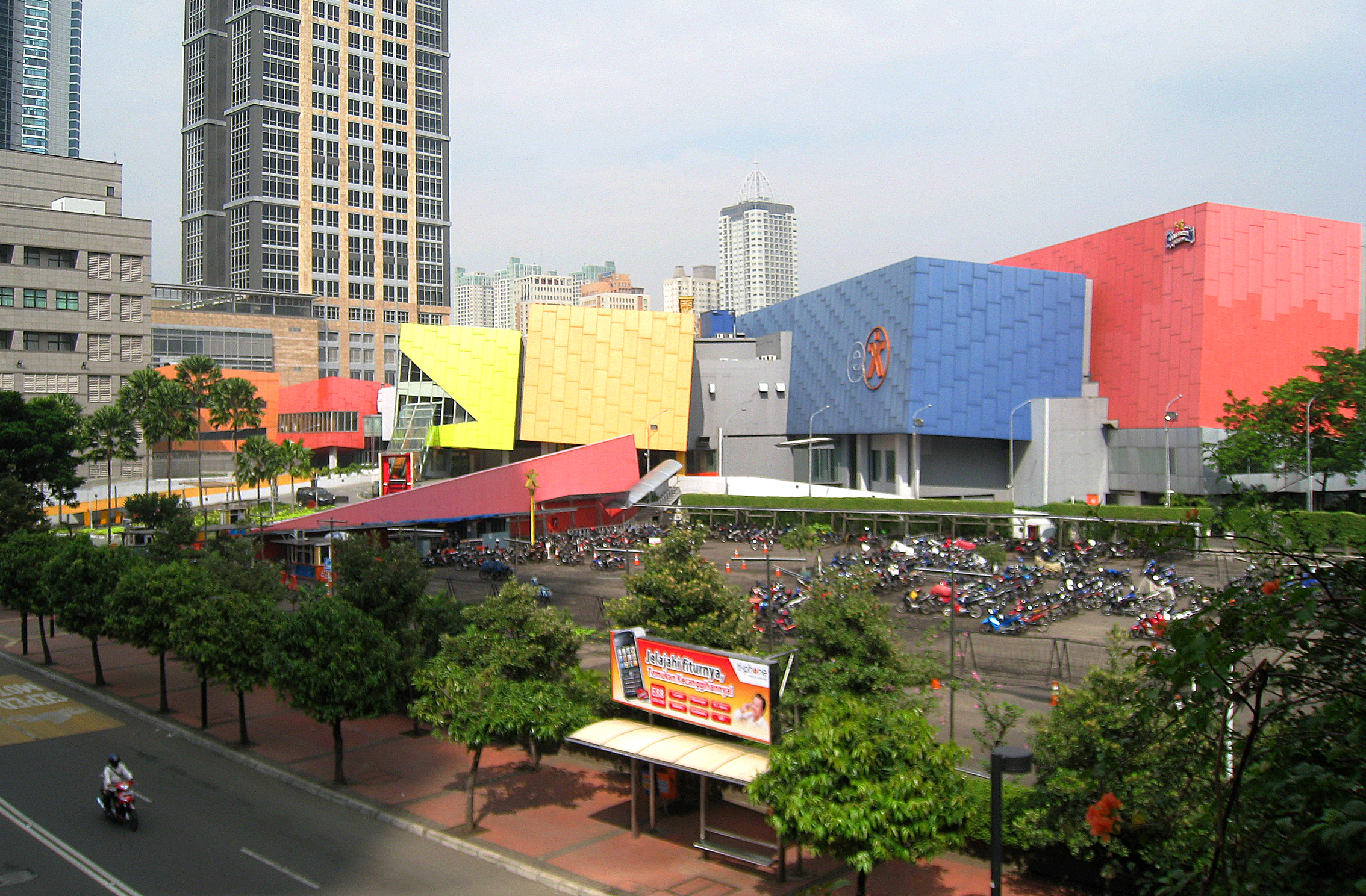 Plaza e'X Jakarta with unique deconstructive tilted colorful cubical architecture. Jalan Thamrin, Jakarta, Indonesia.